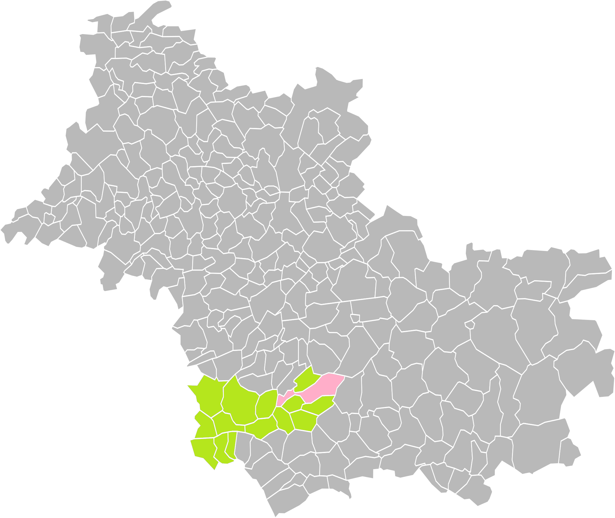 Location of the commune of Contres in the canton of Montrichard (Loir-et-Cher)